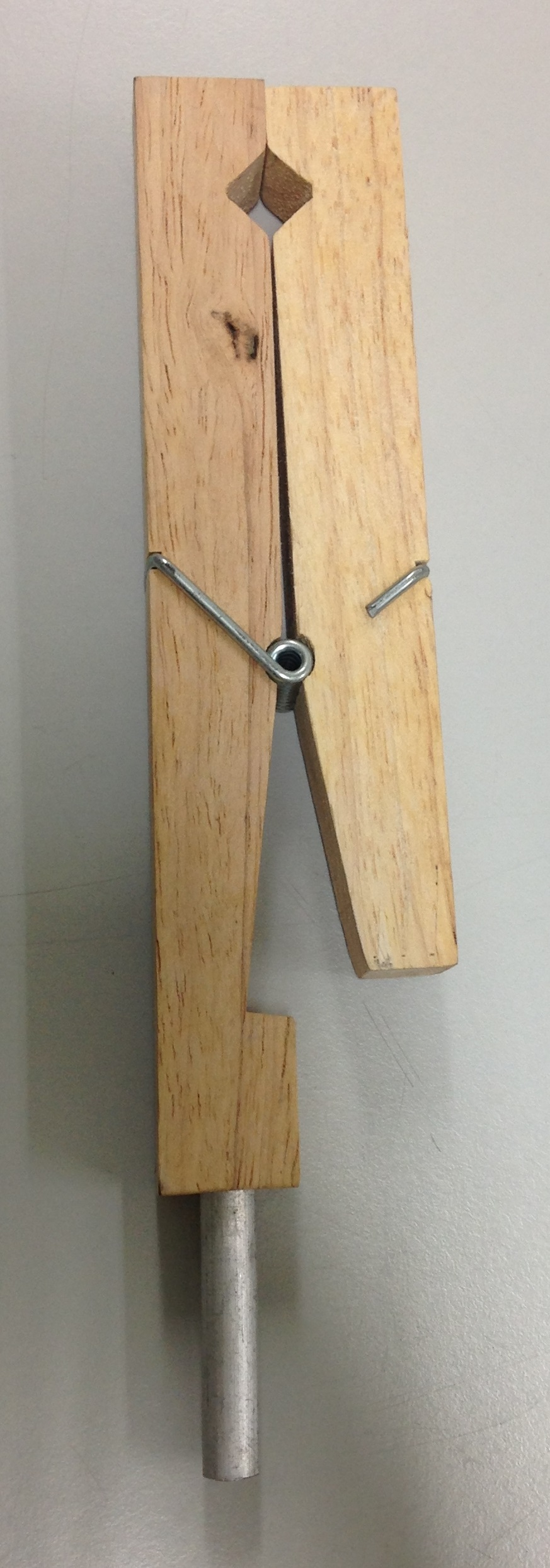 Test Tube Holder2 2015